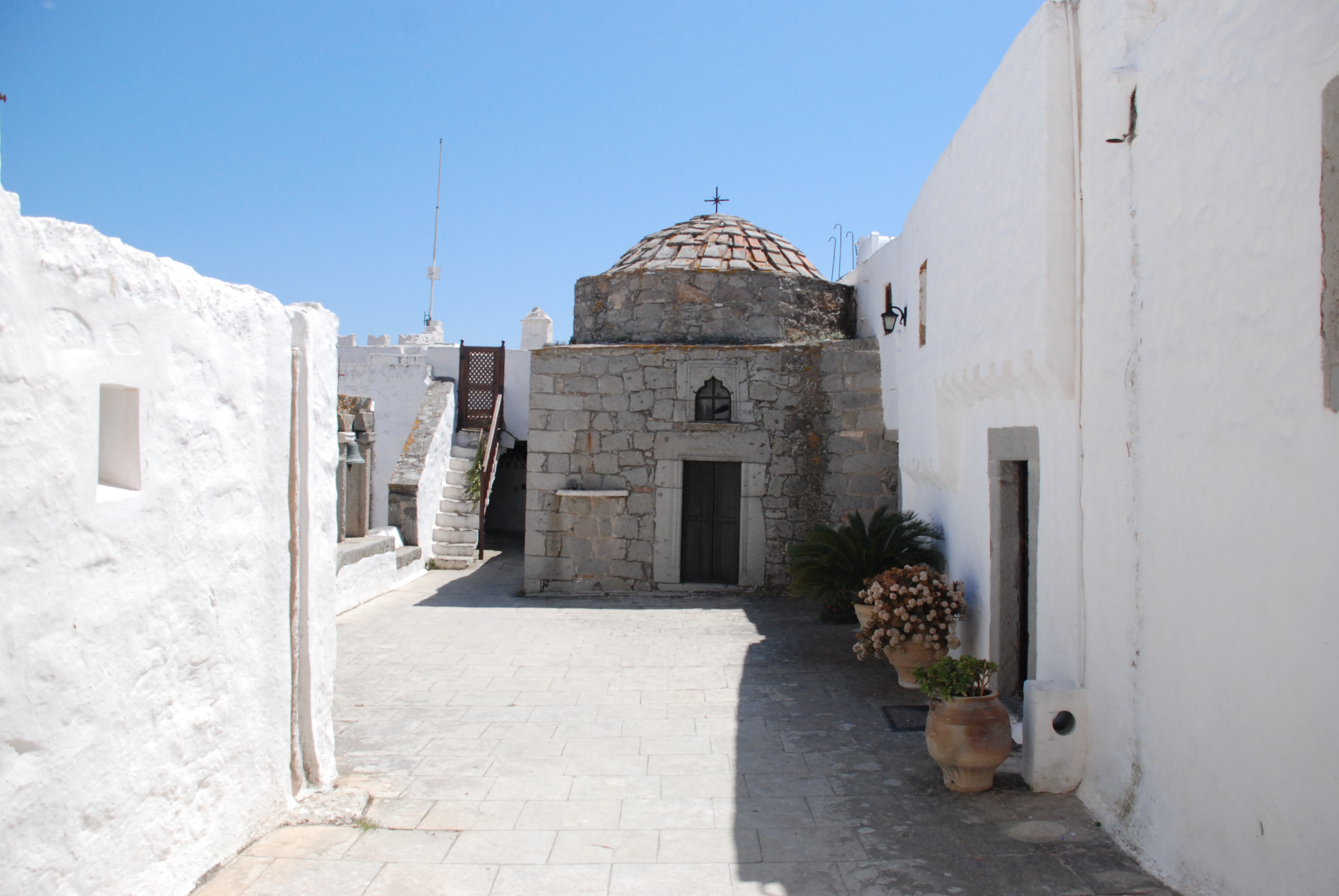 At the Monastery of St John the Theologian, Patmos.